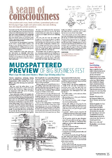 [1] Evidence of permission